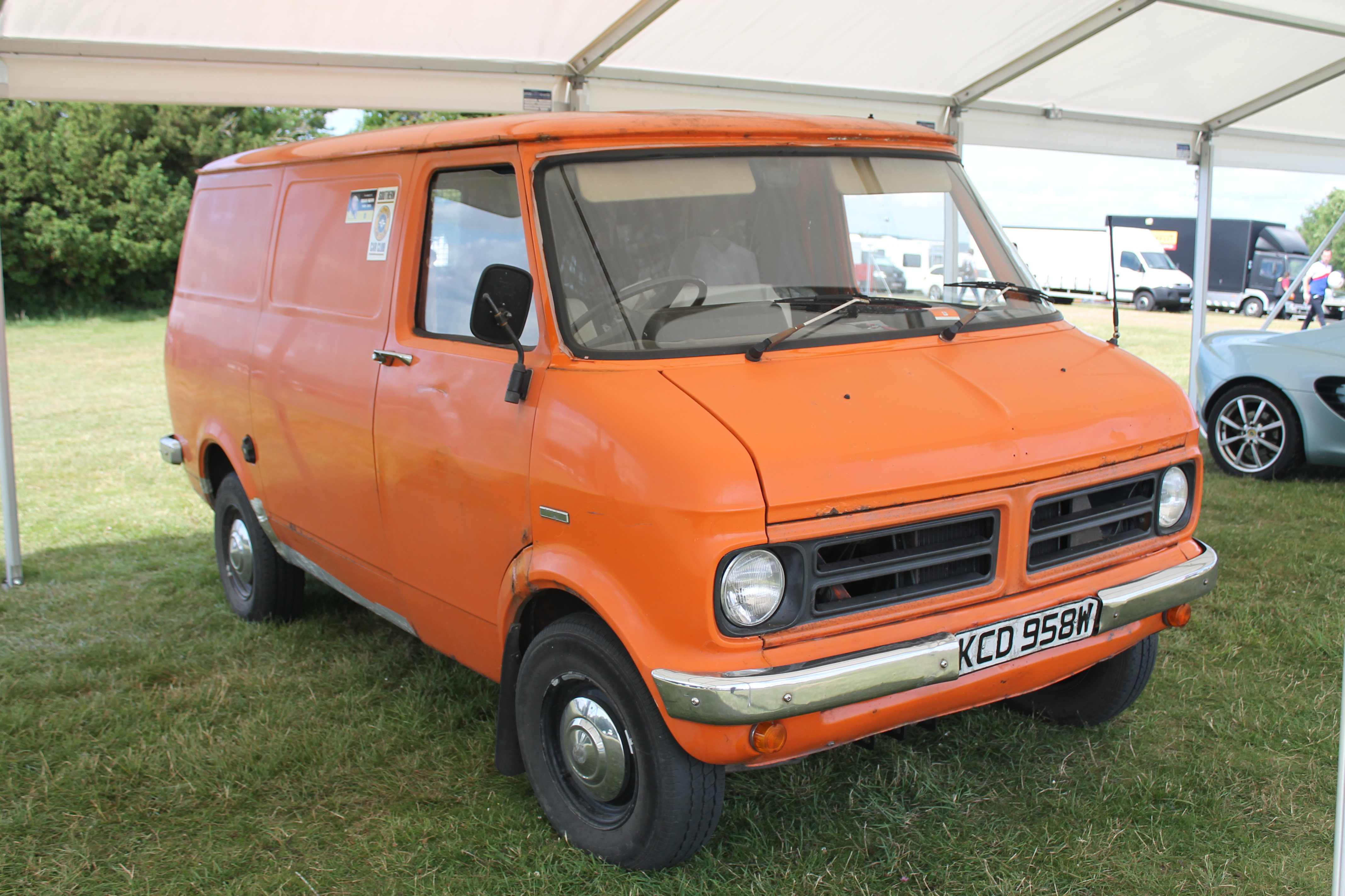 Bit of a timewarp van really, hard to see a non camper CF these days, this one was really lovely. Looked in very well used condition, it's a miracle this 34 year van is still going! Even retains the proper original pressed SERCK plates too which was really nice, and looking a bit worn around the edges. The vehicle details for KCD 958W are: Date of Liability 01 02 2015 Date of First Registration 27 08 1980 Year of Manufacture 1980 Cylinder Capacity (cc) 2279cc CO₂ Emissions Not Available Fuel Type PETROL Export Marker N Vehicle Status Licence Not Due Vehicle Colour ORANGE Vehicle Type Approval Not Available